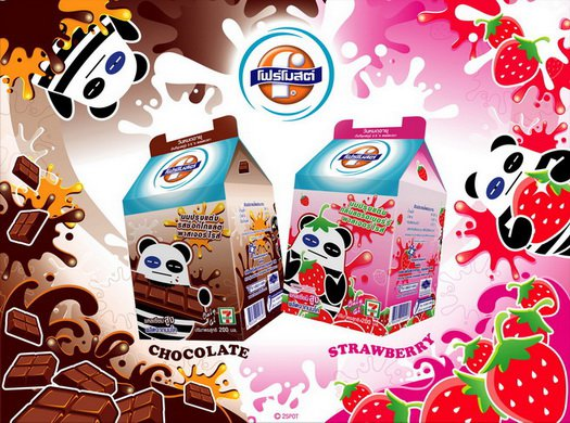 7-Eleven's Foremost milk cartons featuring 2Spot's P4 characters